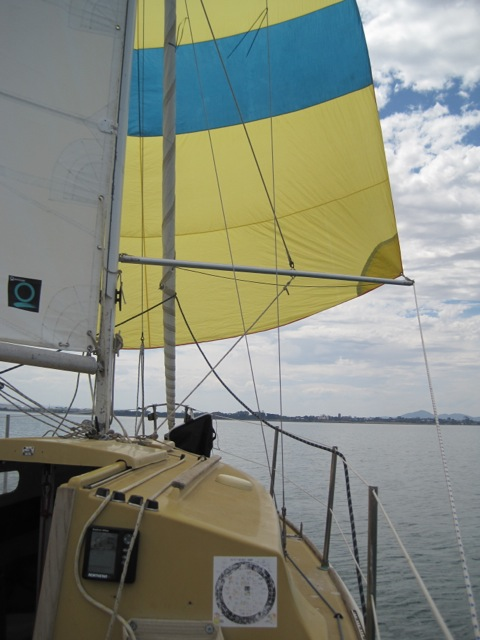 Rod Hagen 19th February, 2012